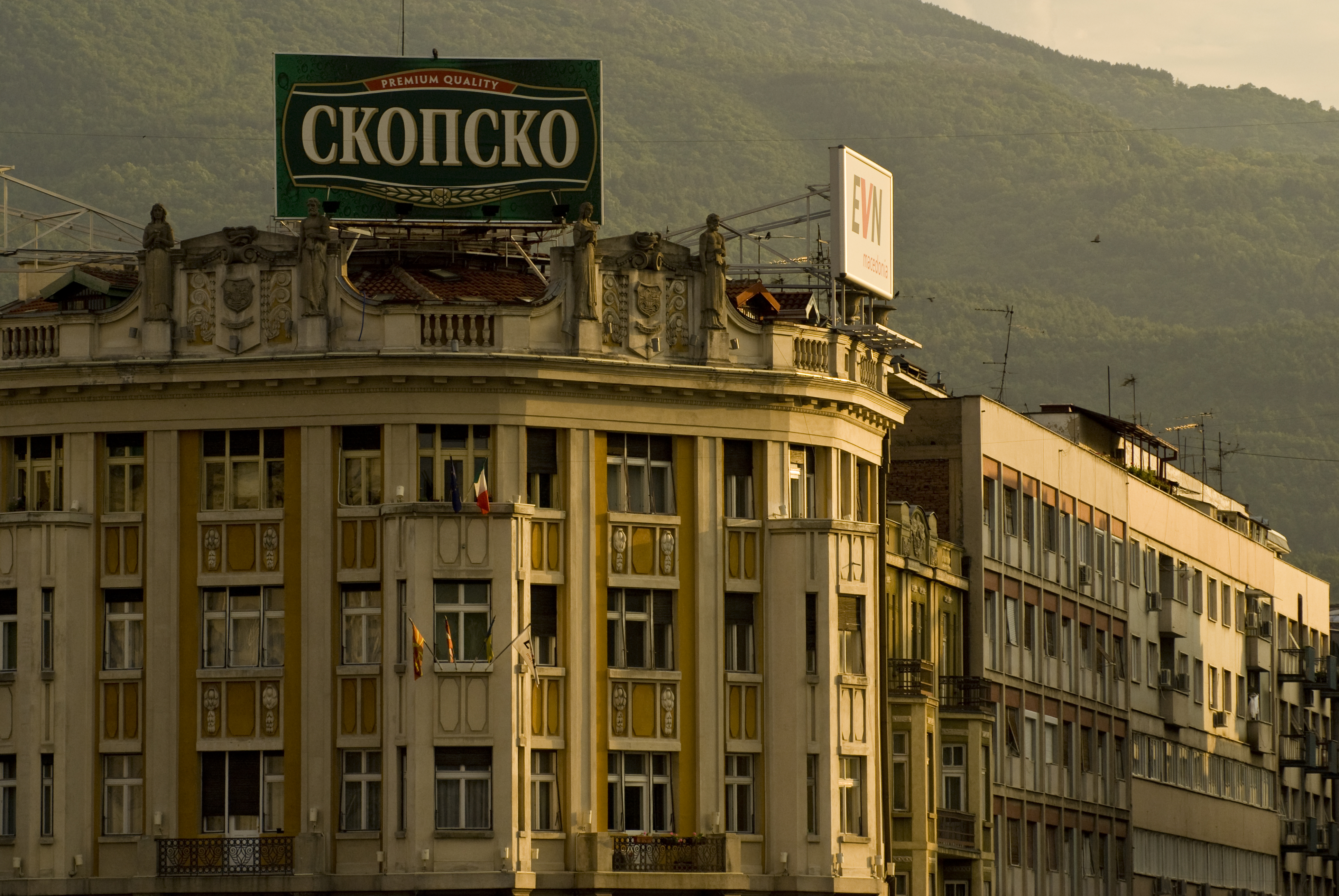 Skopsko beer sign overlooking Macedonia Square. Ristić Palace